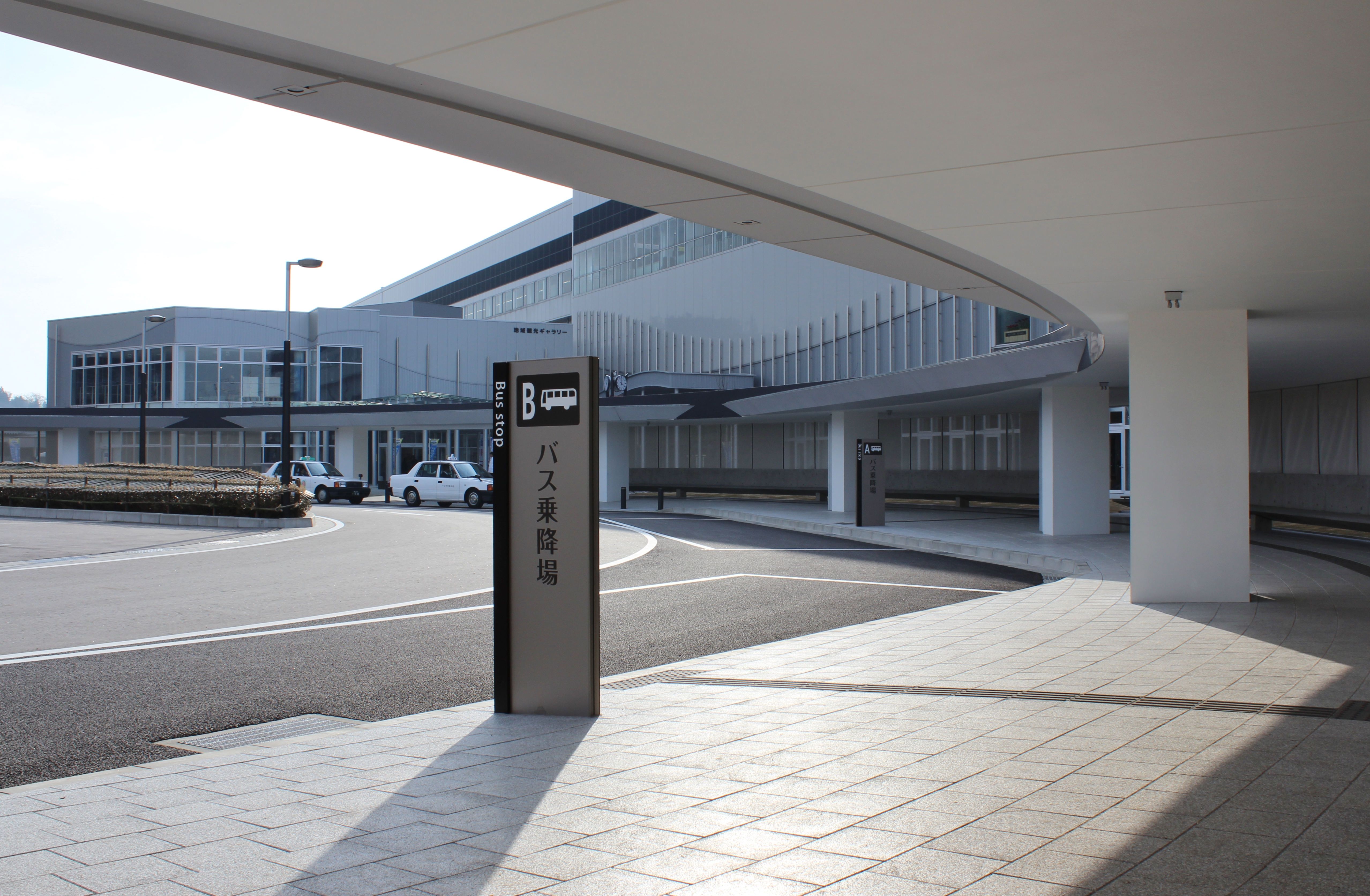 The bus stop and taxi waiting area in front of Kurobe-Unazukionsen Station on the Hokuriku Shinkansen in Japan